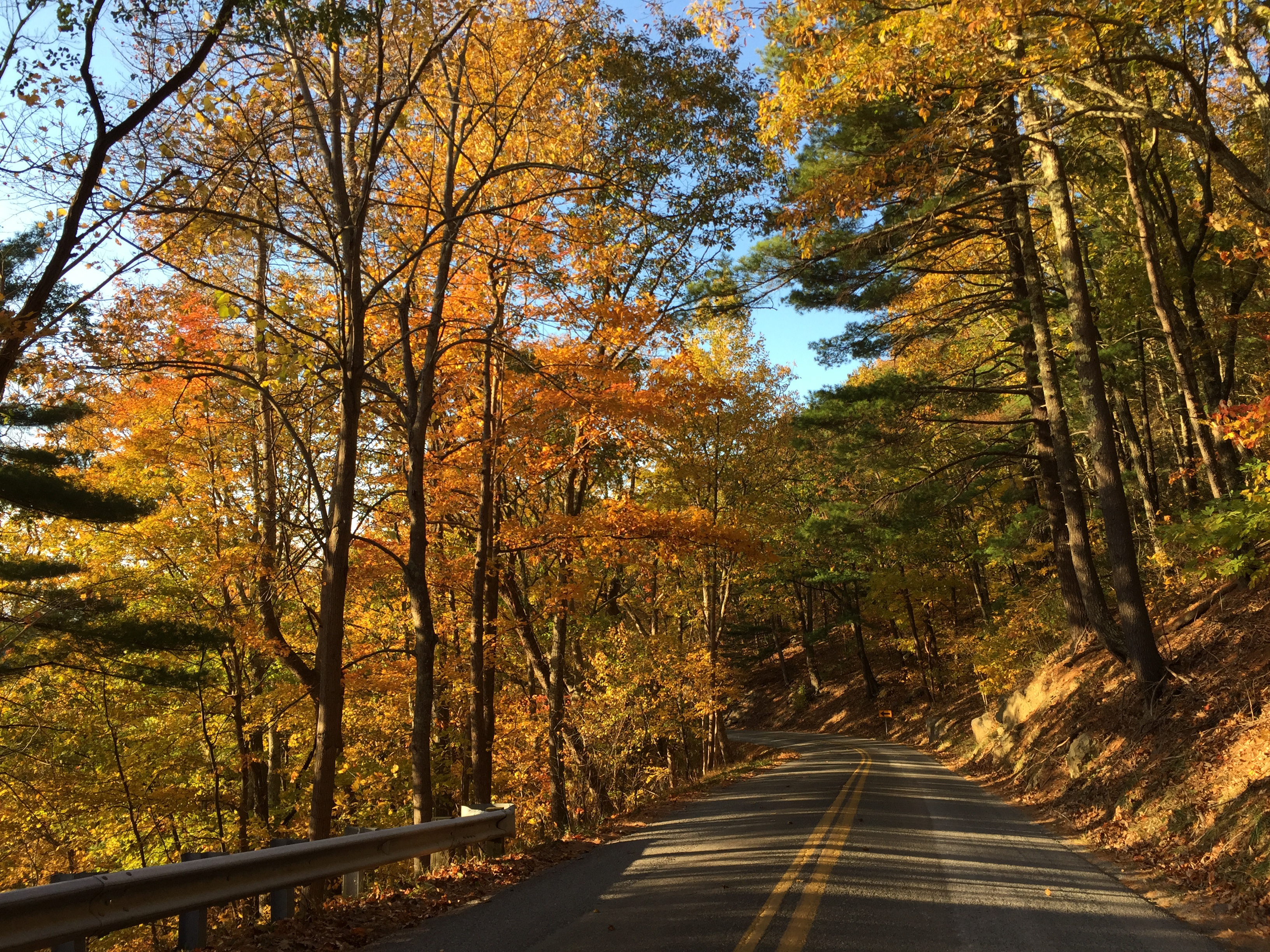 View west along Virginia State Route 56 (Tye River Turnpike) just west of the Tye River Gap in Rockbridge County, Virginia